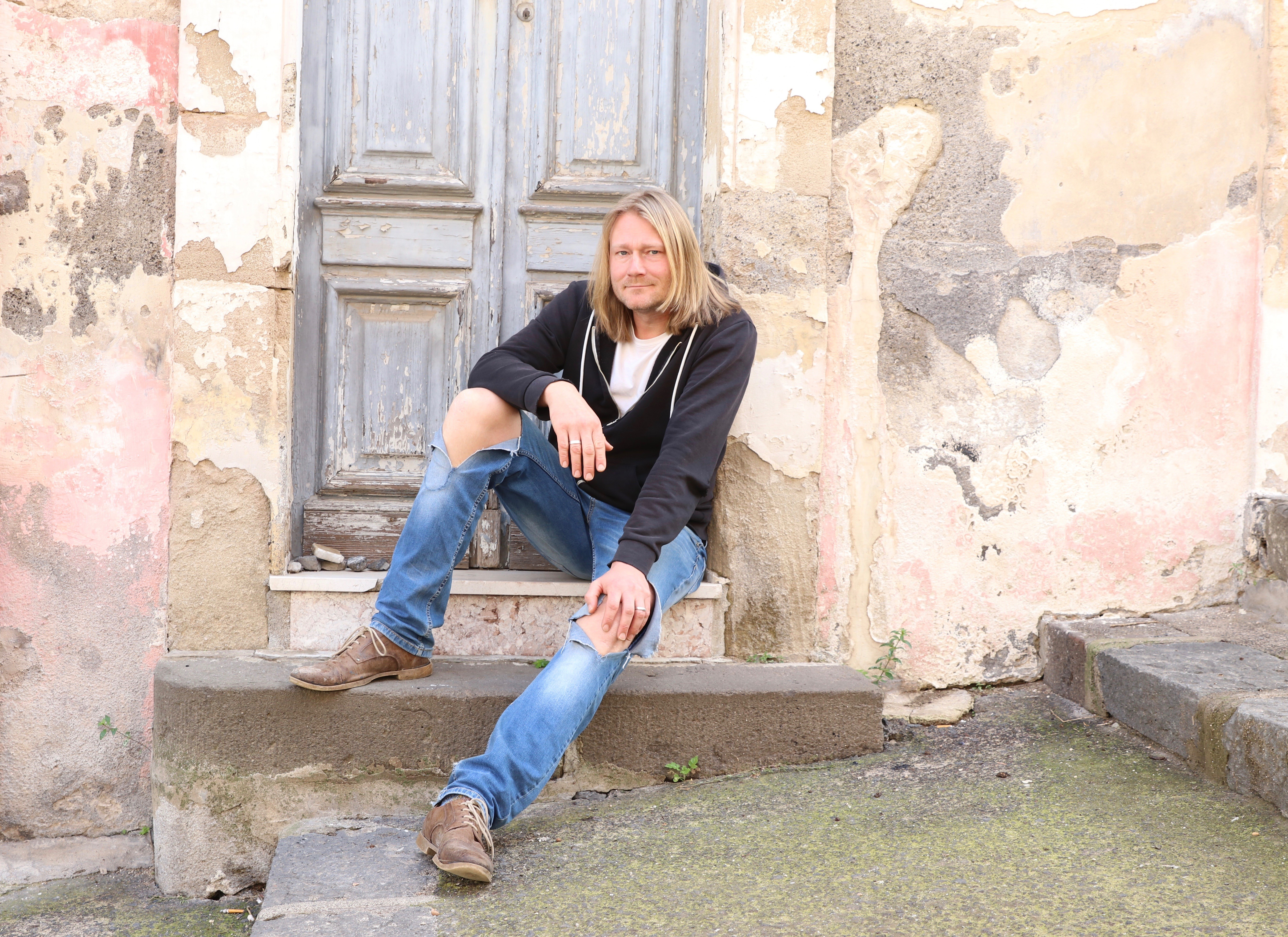 Christian Haase, musician, singer, songwriter